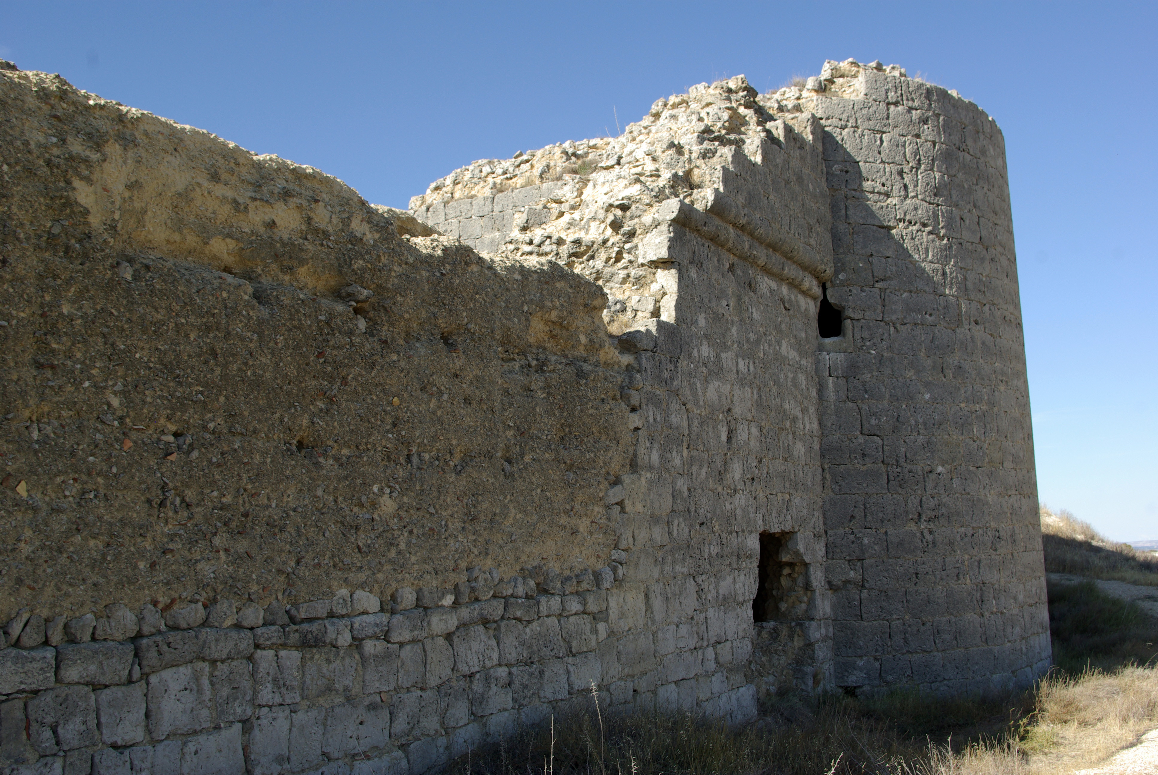 Torremormojón castle. (Palencia, Spain)